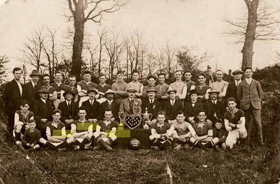 The Saltash Stars in 1924, the year when they were cup winners.